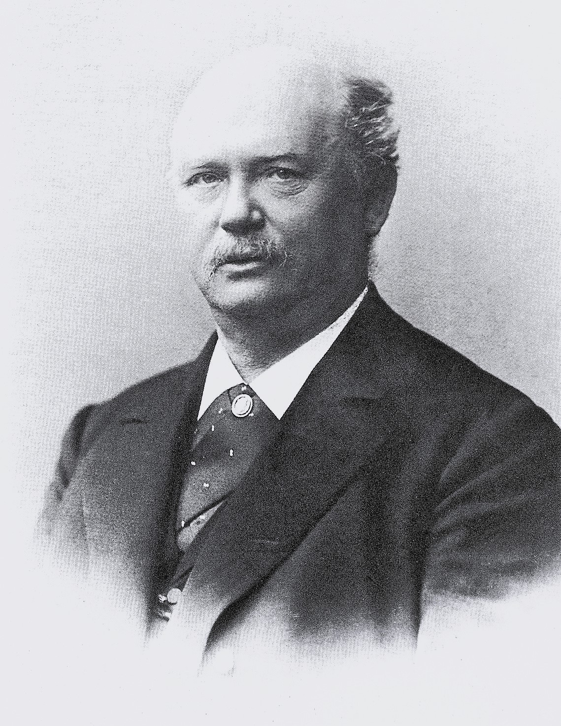 Photo of Georg von Siemens